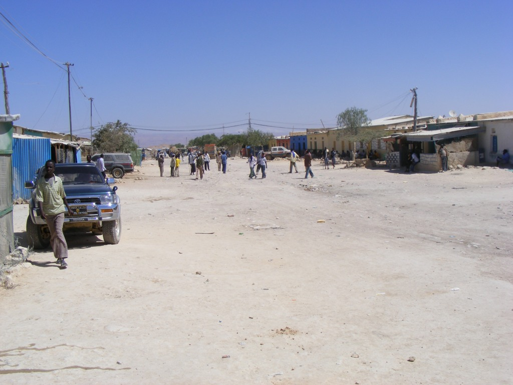 Main road in the city of Badhan